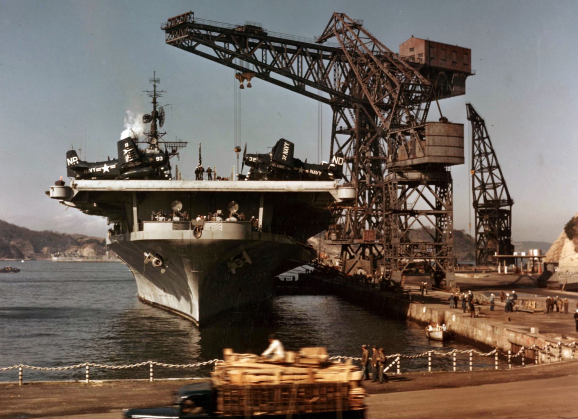 The U.S. Navy aircraft carrier USS Antietam (CV-36) moored at Piedmont Pier in Yokosuka, Japan, during a Korean War deployment. Visible on deck are two Douglas AD Skyraider aircraft from Carrier Air Group 15 (CVG-15): An AD-4NL from Composite Squadron VC-35 Det.D Night Hecklers (left), and an AD-4W from Composite Squadron VC-11 Det.D (right).